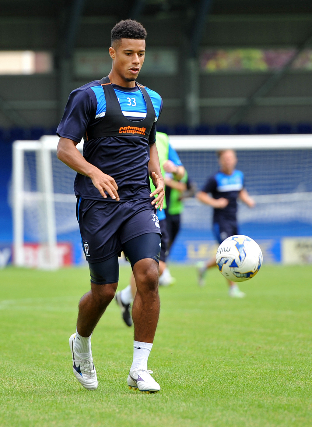 AFC Wimbledon players train during the club's open day at The Cherry Red Records Stadium, 4 August 2015